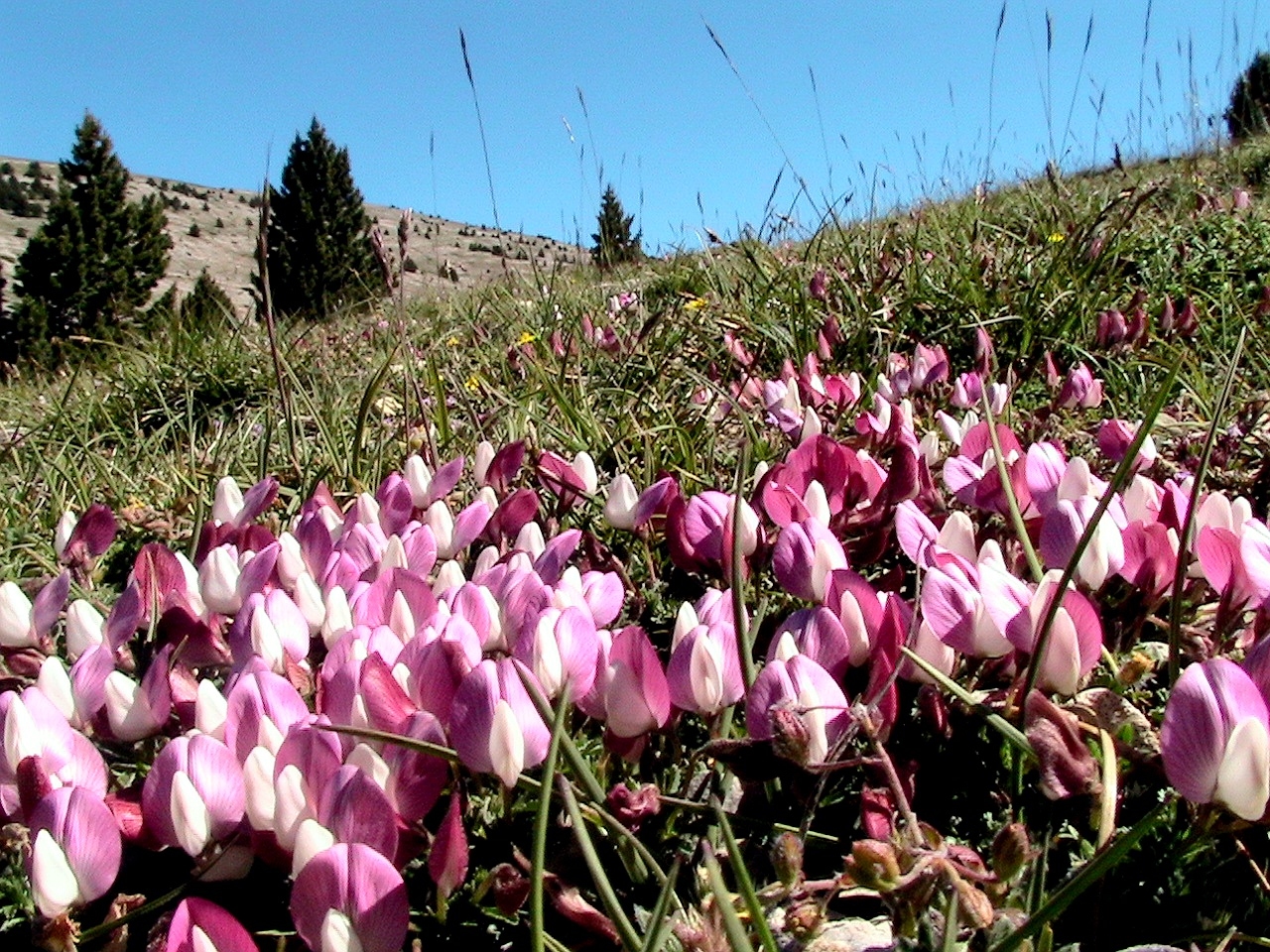 Ononis cristata. In la Bòfia, la Coma i la Pedra (Solsonès - Catalunya). To 2.090 m. altitude